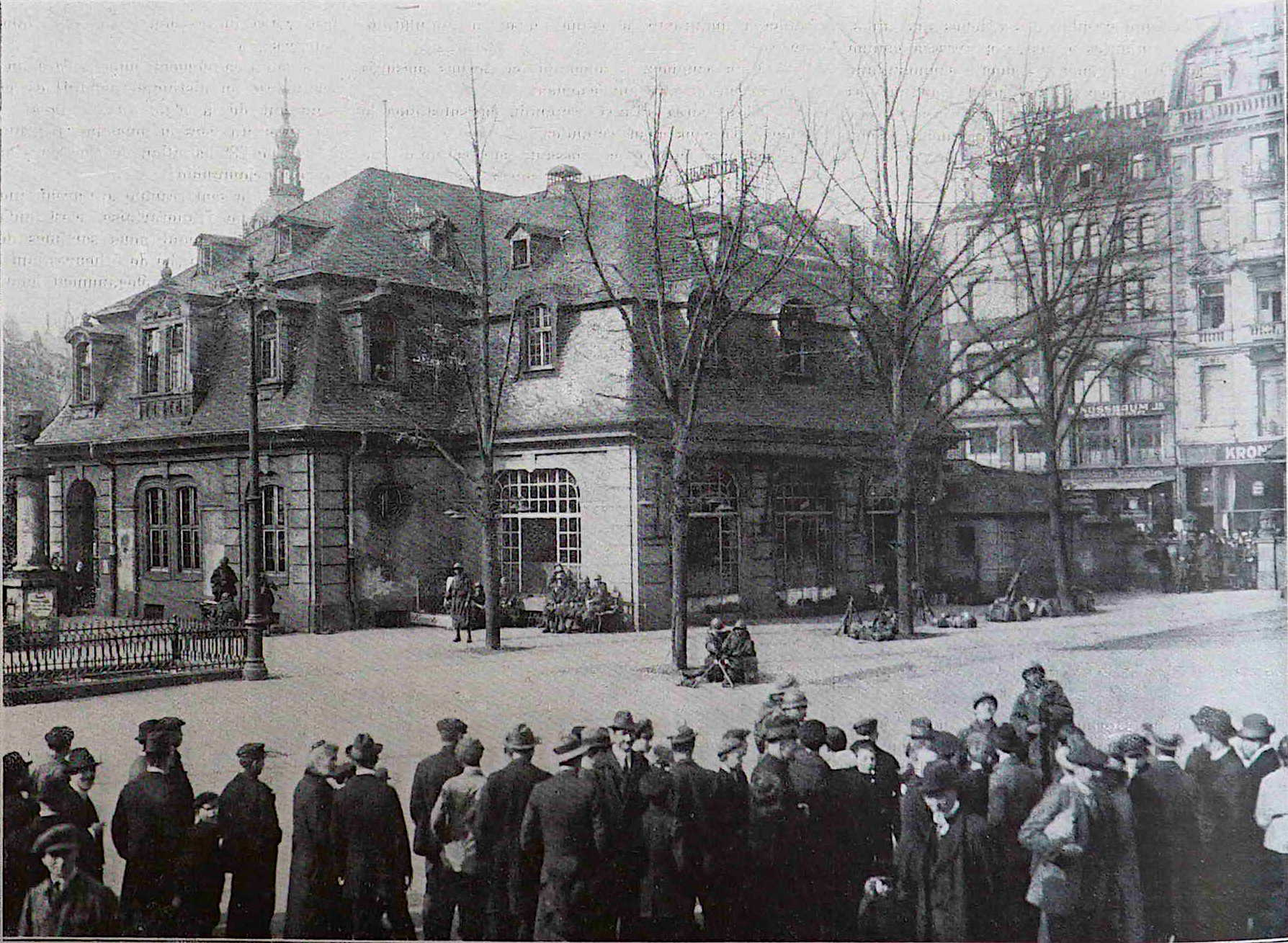 Hauptwache, Frankfurt morning of 7 April 1920 Caption: The morning of 7th April, before the clash which took place in the early afternoon. See the map below. Two views, (the first and second days of the occupation) of Schiller Platz, Frankfurt-am Main where the most serious incidents occurred on the second day